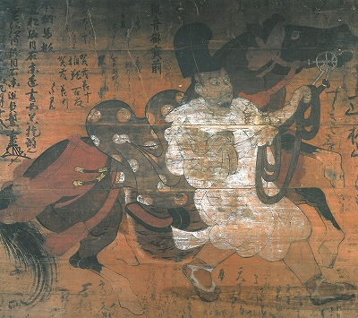 Ita-e with sacred horse by Konome Sadoshige, Wakamatsu-dera, Tendo, Yamagata, Japan